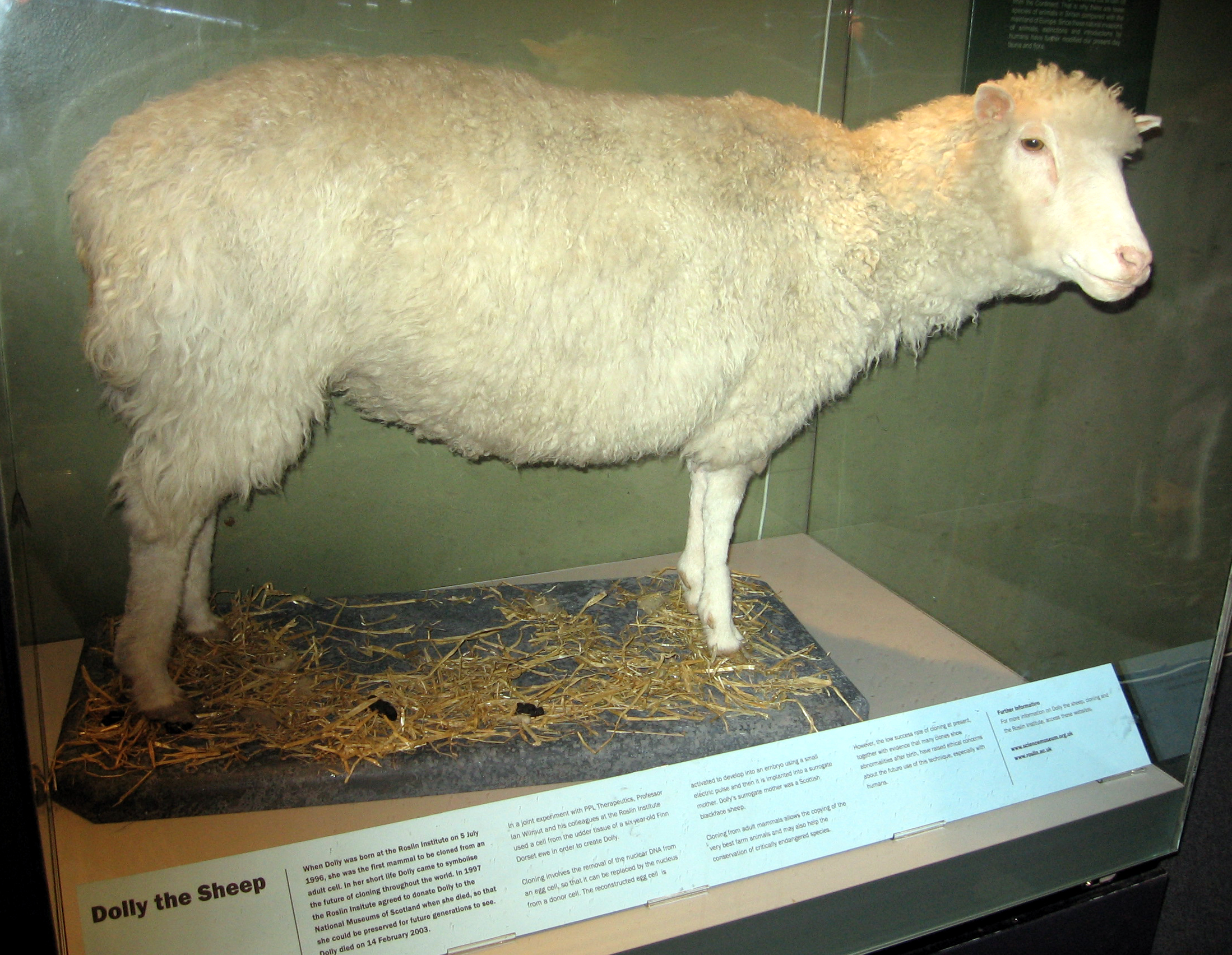 Modified version of Commons image